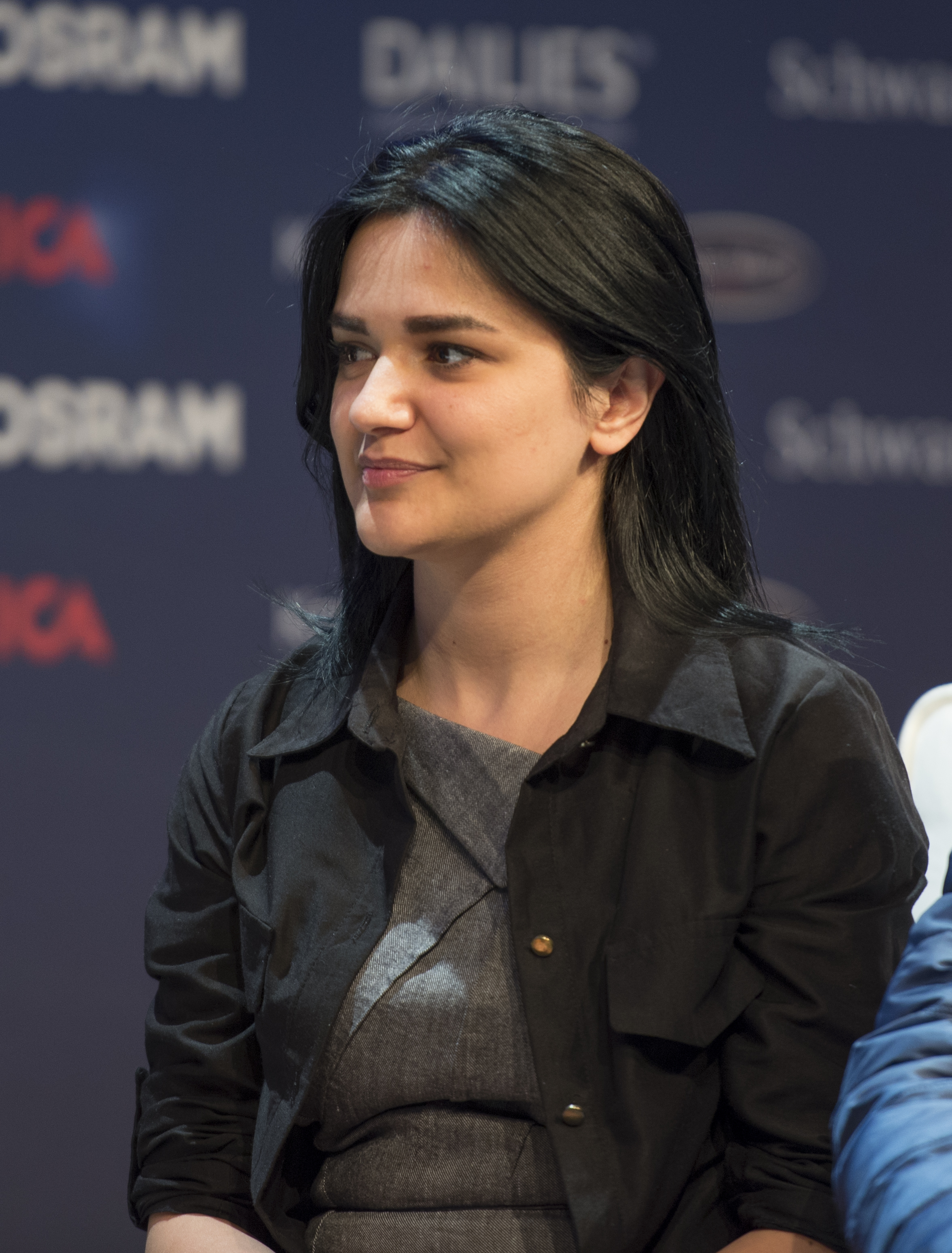 Olsa Toqi at a Meet & Greet during the Eurovision Song Contest 2016 in Stockholm. (Help translate this text)